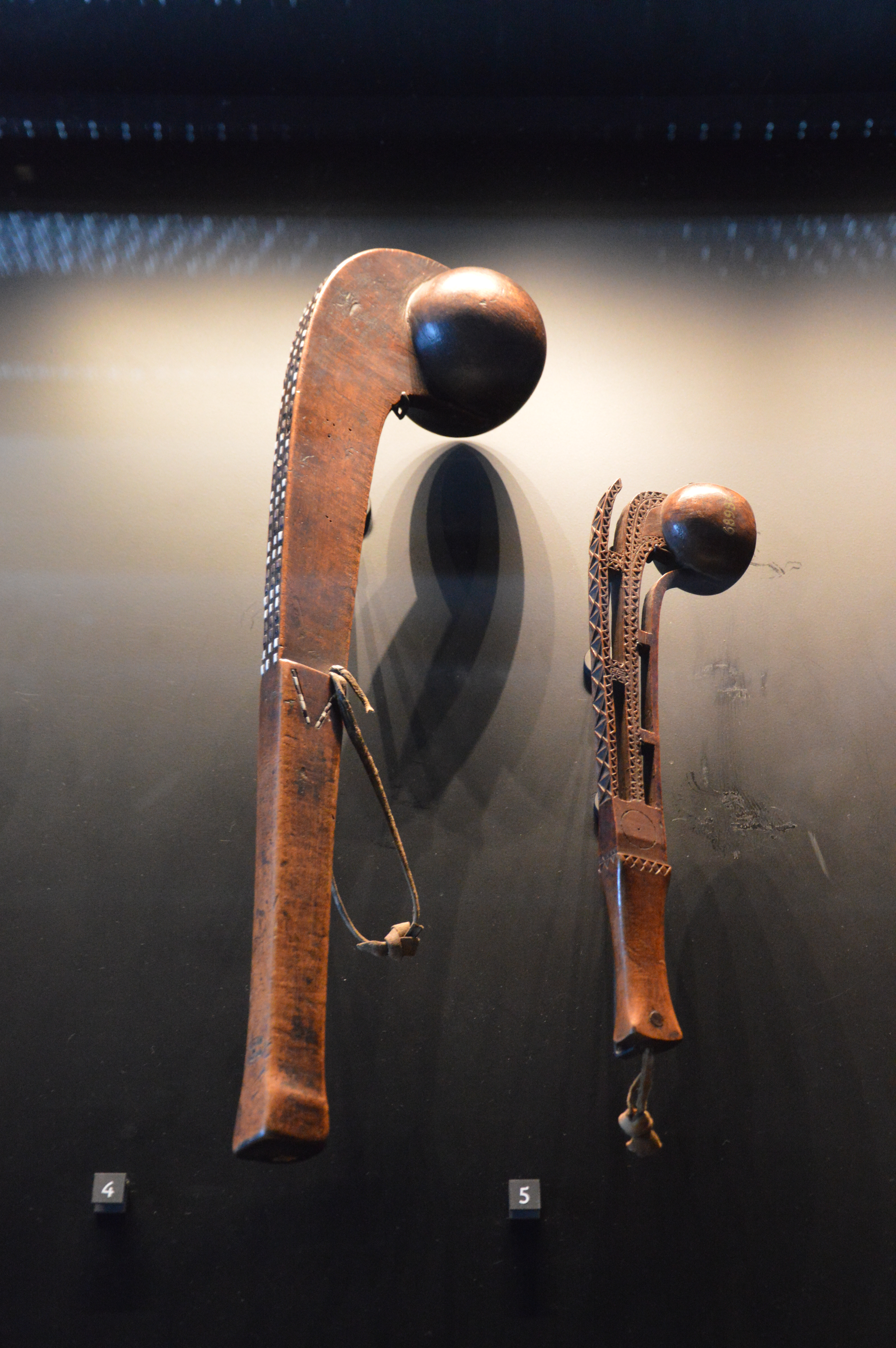 Ball-headed clubs